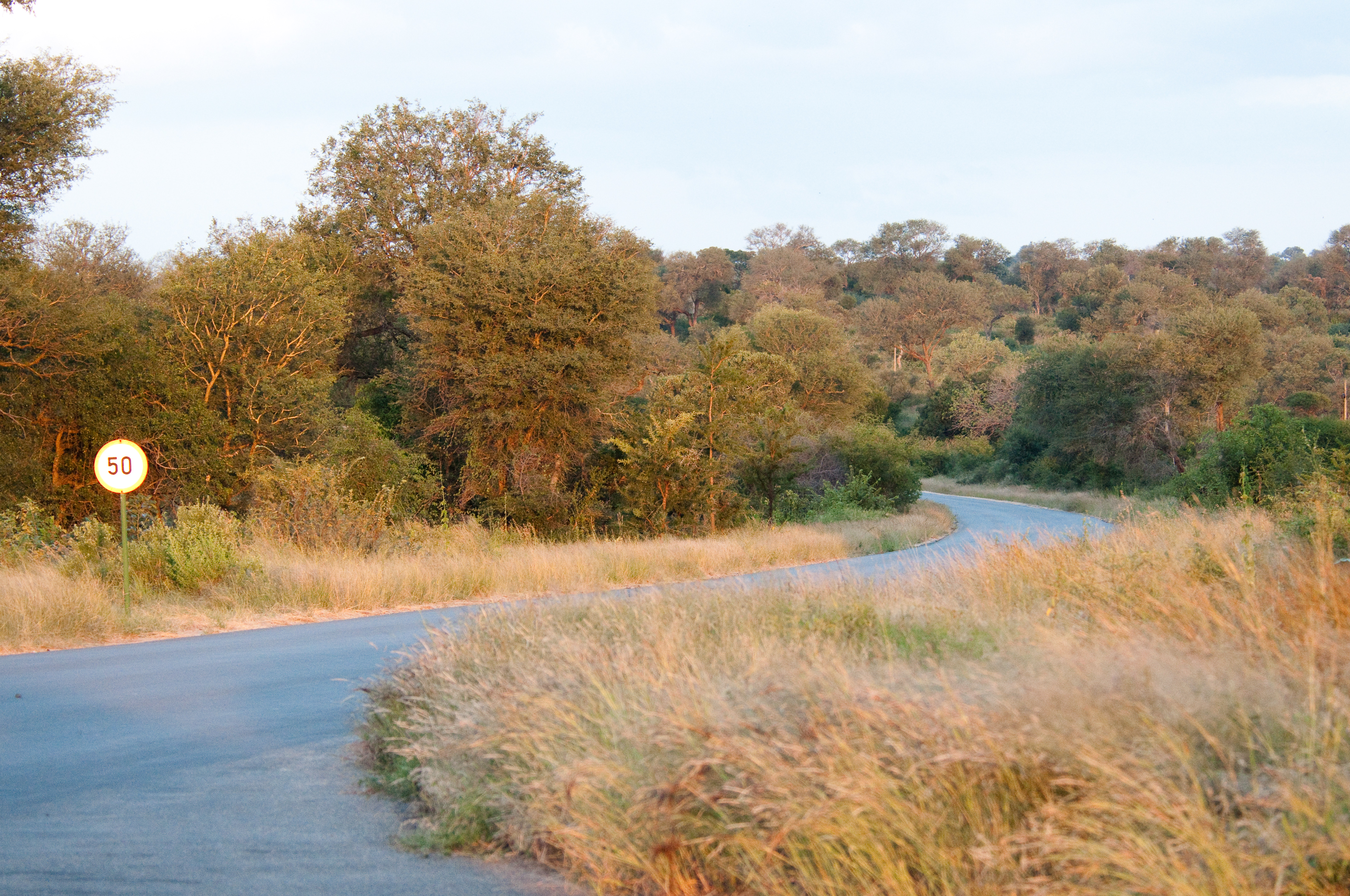 The Road Home